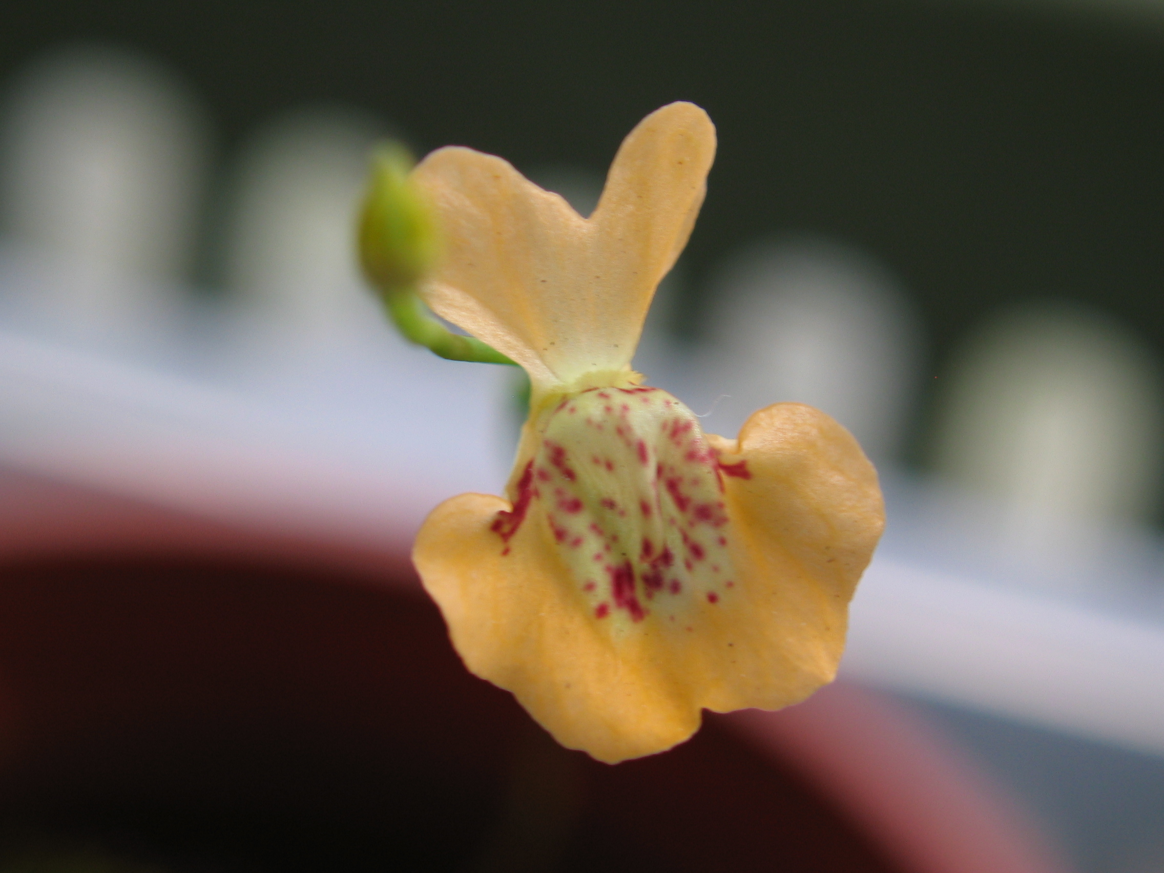 Utricularia fulva 's flower.